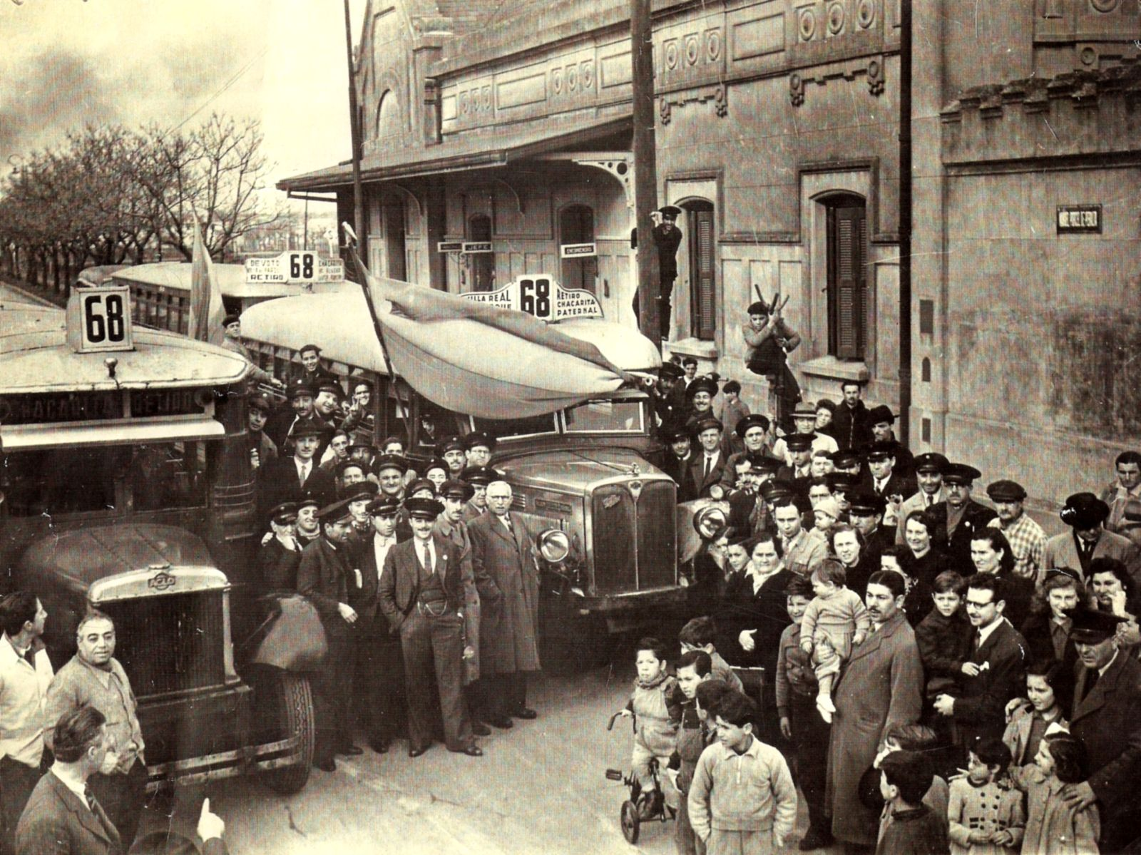 Opening of the Versailles station of BA Great Southern Railway, in Buenos Aires, Argentina.